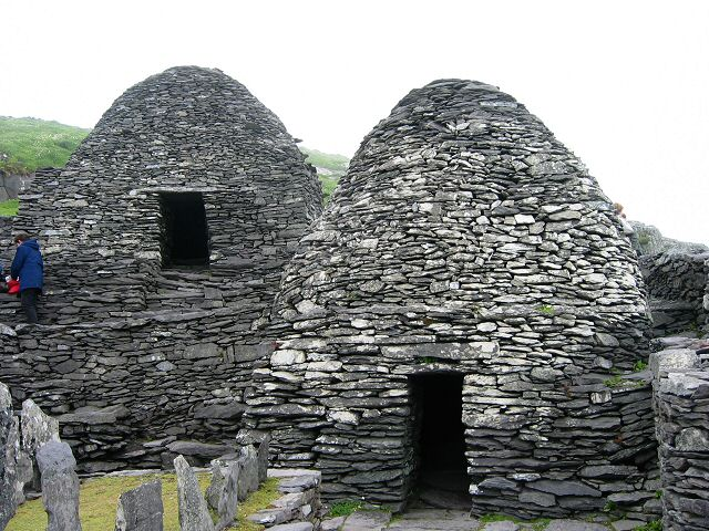 Skellig Michael's behive huts, Ireland. Right - Cell F, left - Cell E